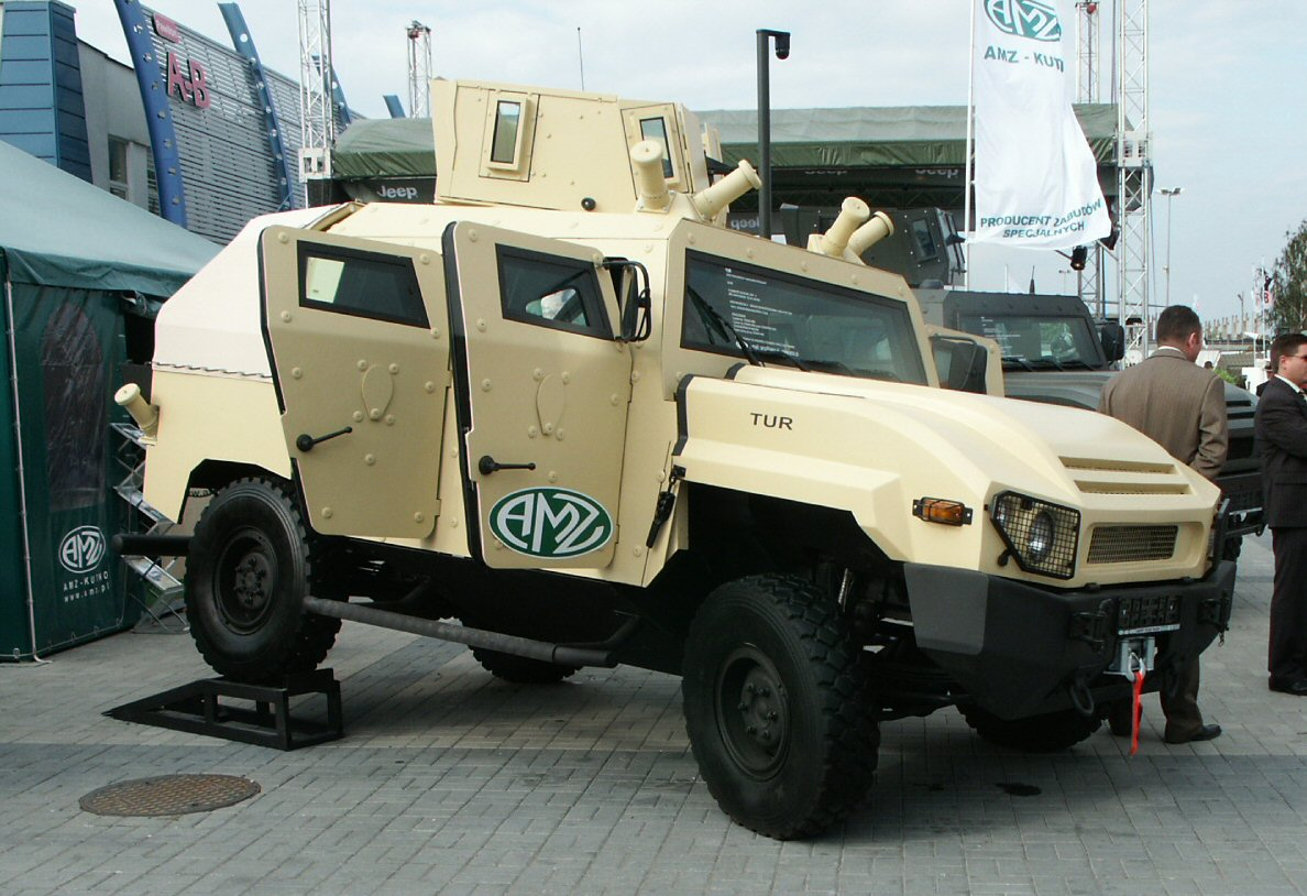 Polish armoured patrol car AMZ-Kutno Tur prototype. International Defence Industry Salon 2007, Kielce, Poland